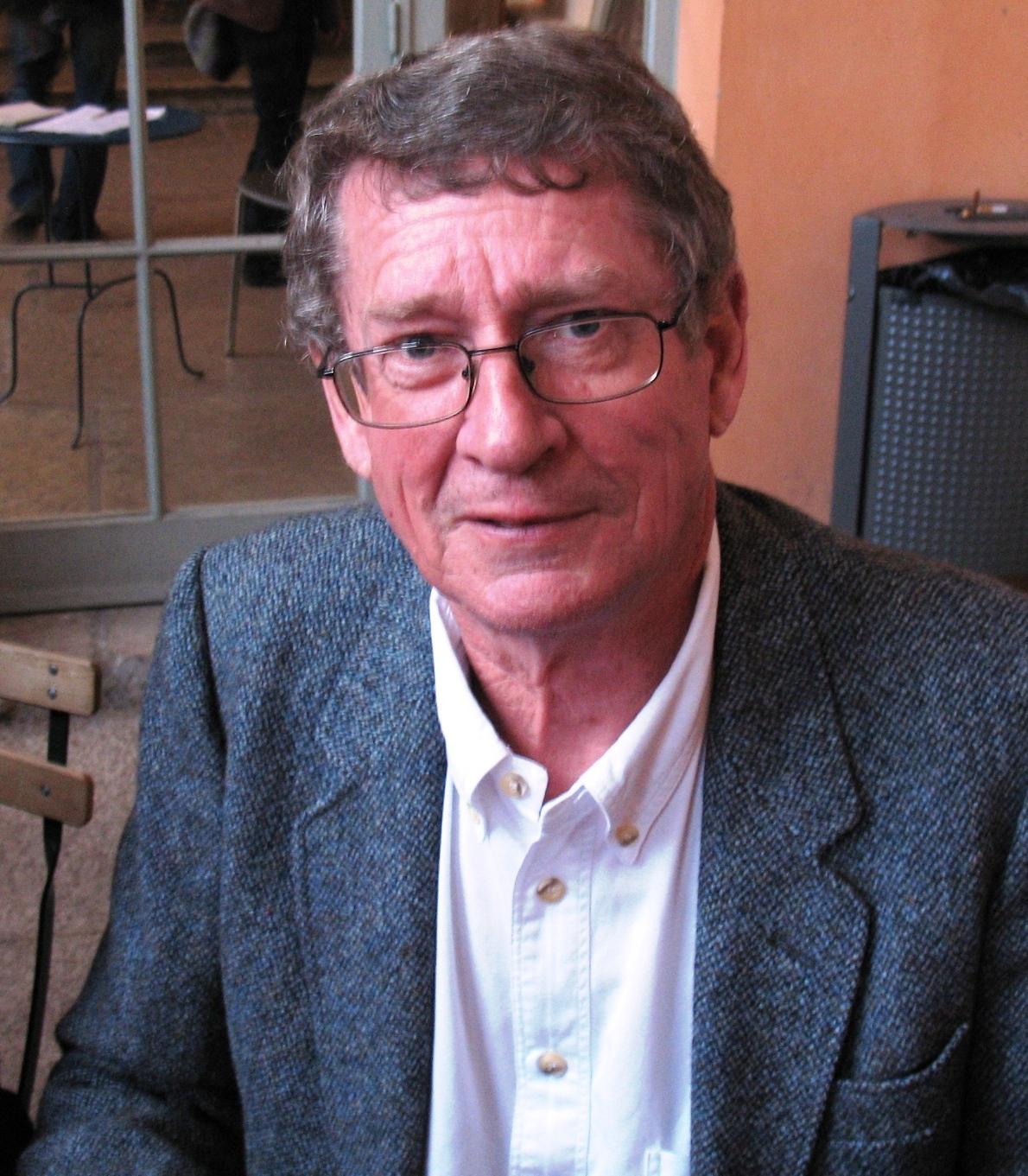 Photograph taken in Lyon, France, at the International Forum on the Novel.